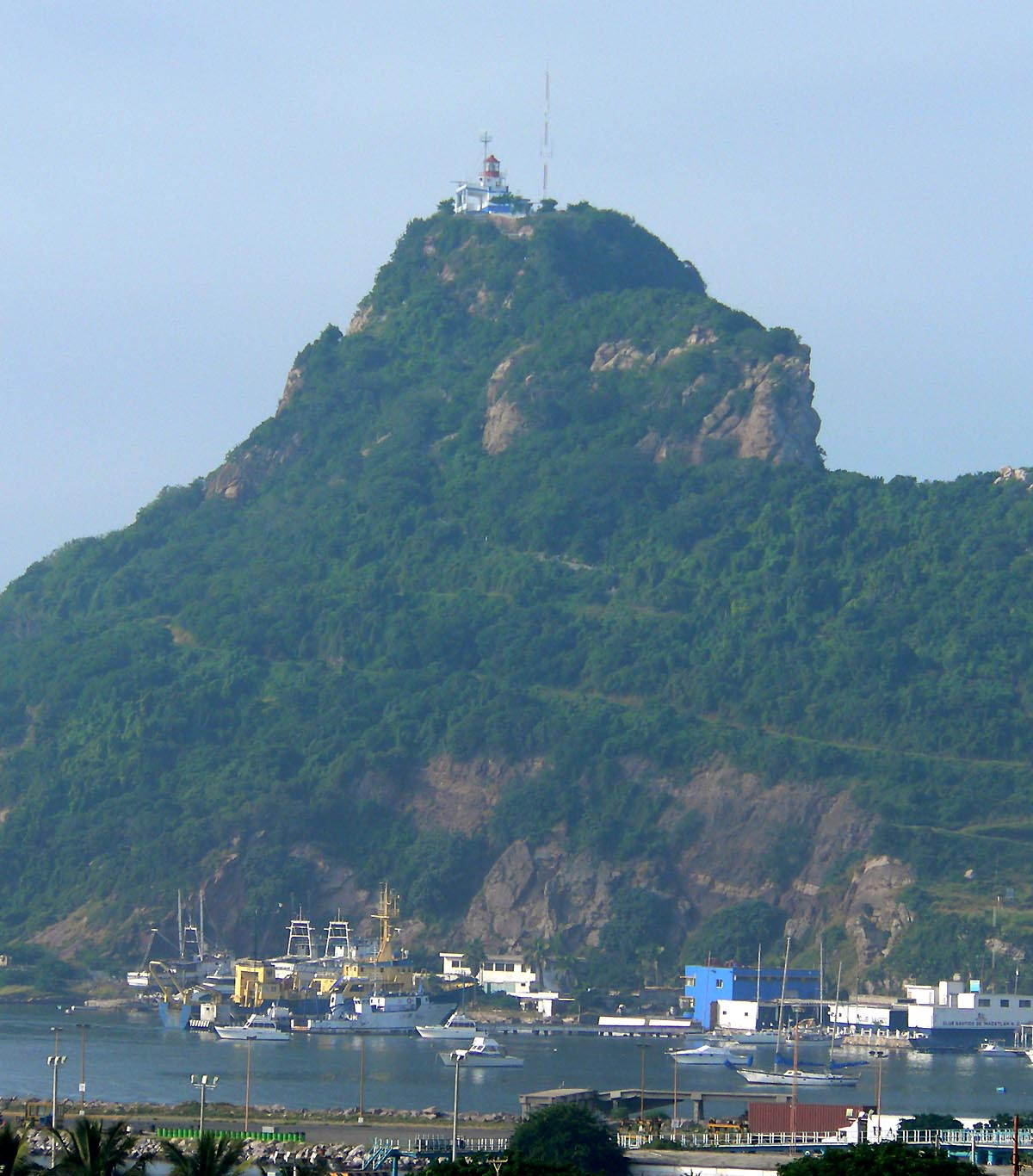 Photo of Mazatlan's El Faro